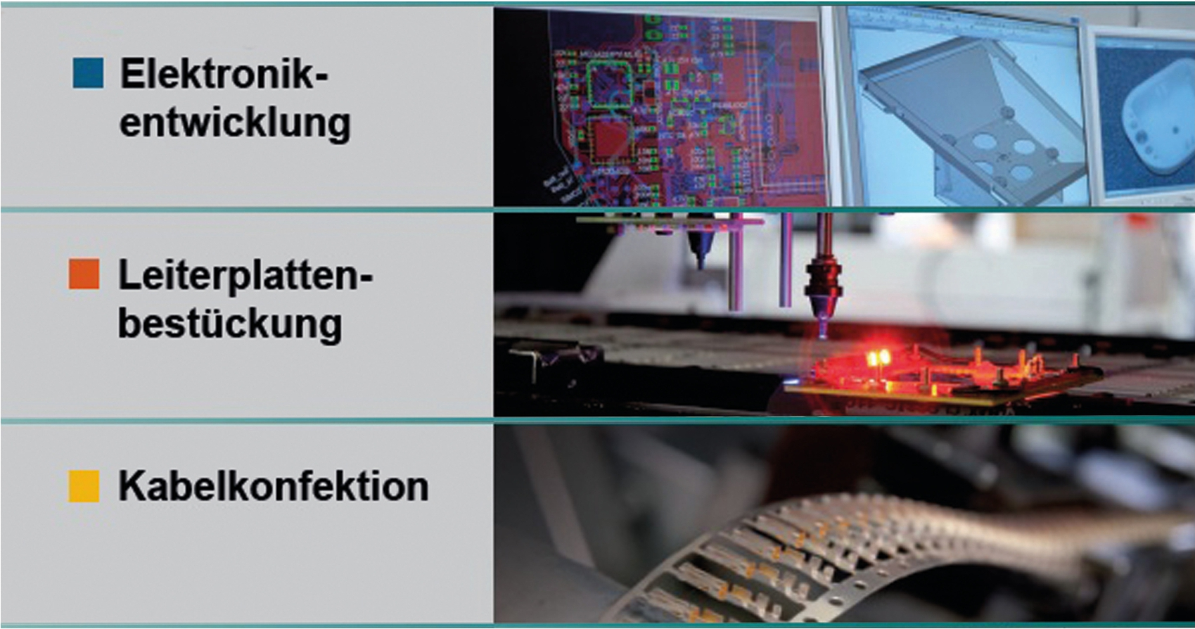 A brief, illustrative introduction of EMS (= Electronics Manufacturing Services), consisting of Electronics Development, Printed Circuit Boards Assembly and Cable Assembly